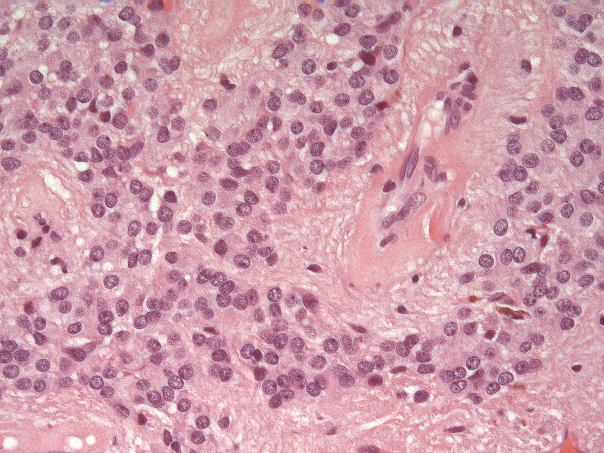 Haematoxylin&Eosin stained paraffin section of an ependymoma (WHO Grade II)